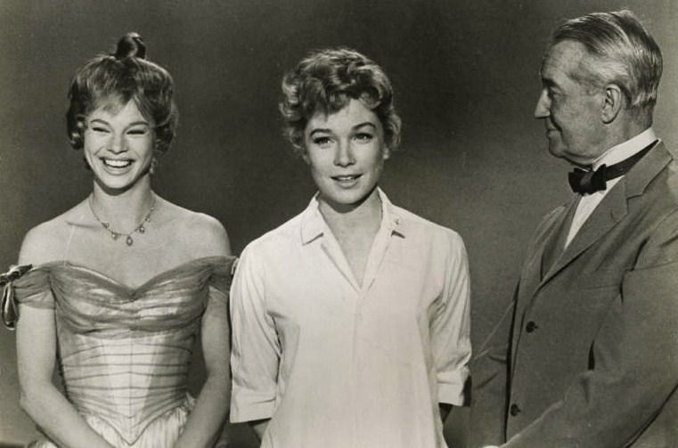 L. to R. : Juliet Prowse, Shirley MacLaine & Maurice Chevalier in Can-Can - publicity still (original image damaged, modified and cropped : see source)